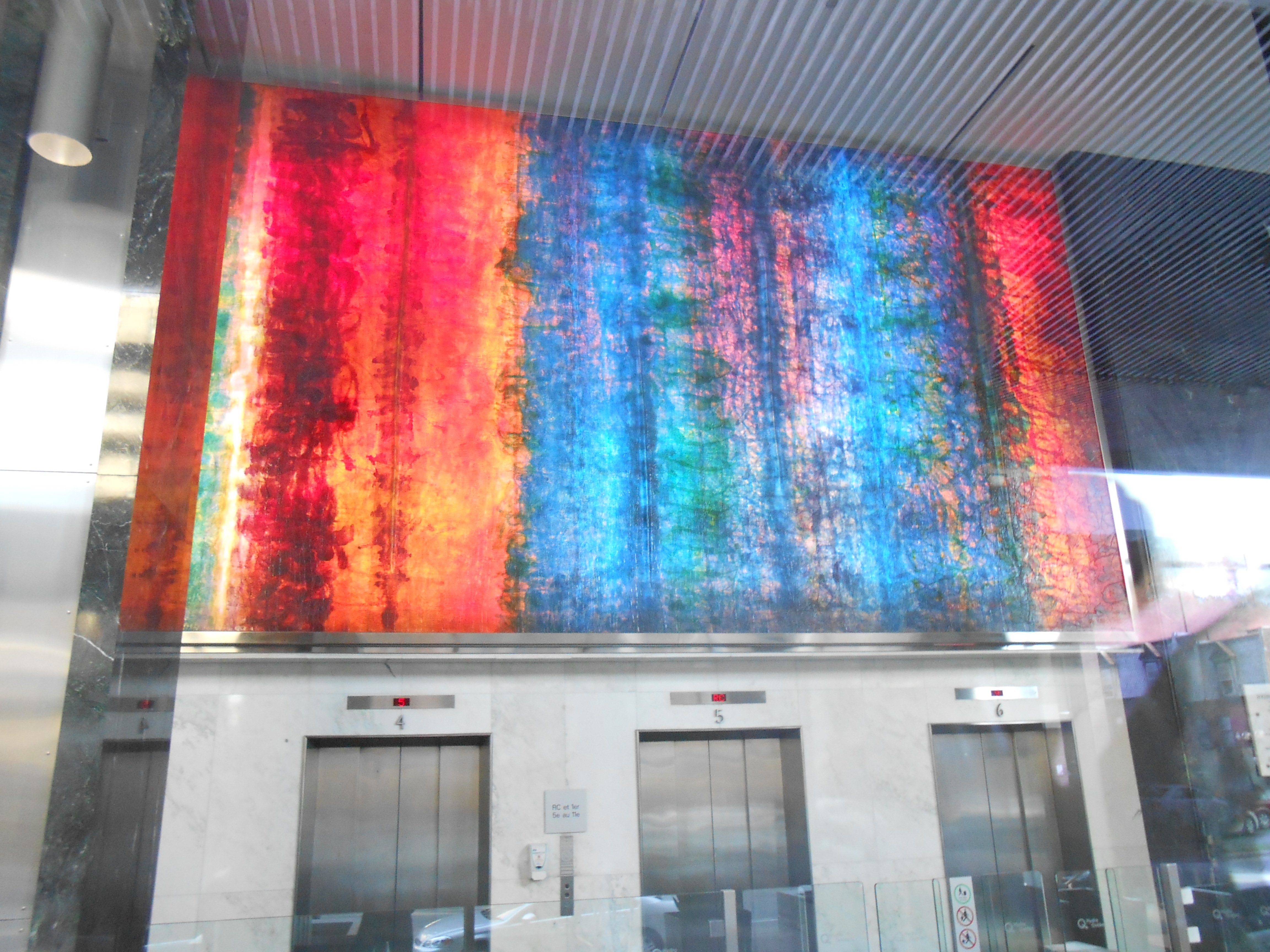 Lumière et mouvement dans la couleur (1961-1962), by Jean-Paul Mousseau, Lobby of Hydro-Québec's head office building, 75 René-Lévesque Boulevard West, Montreal